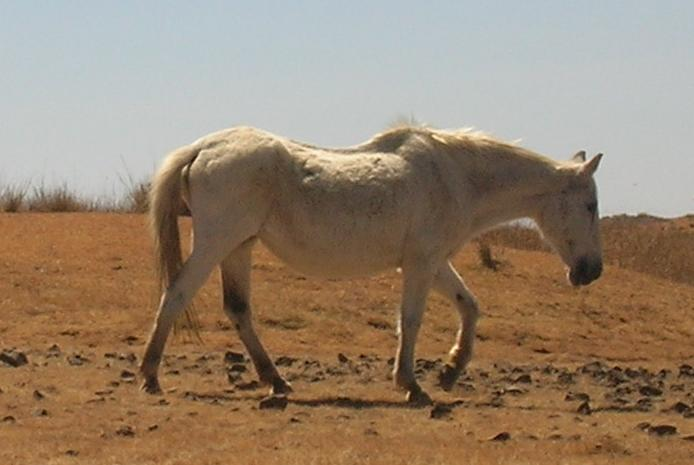 Basra, 11 years old female feral horse